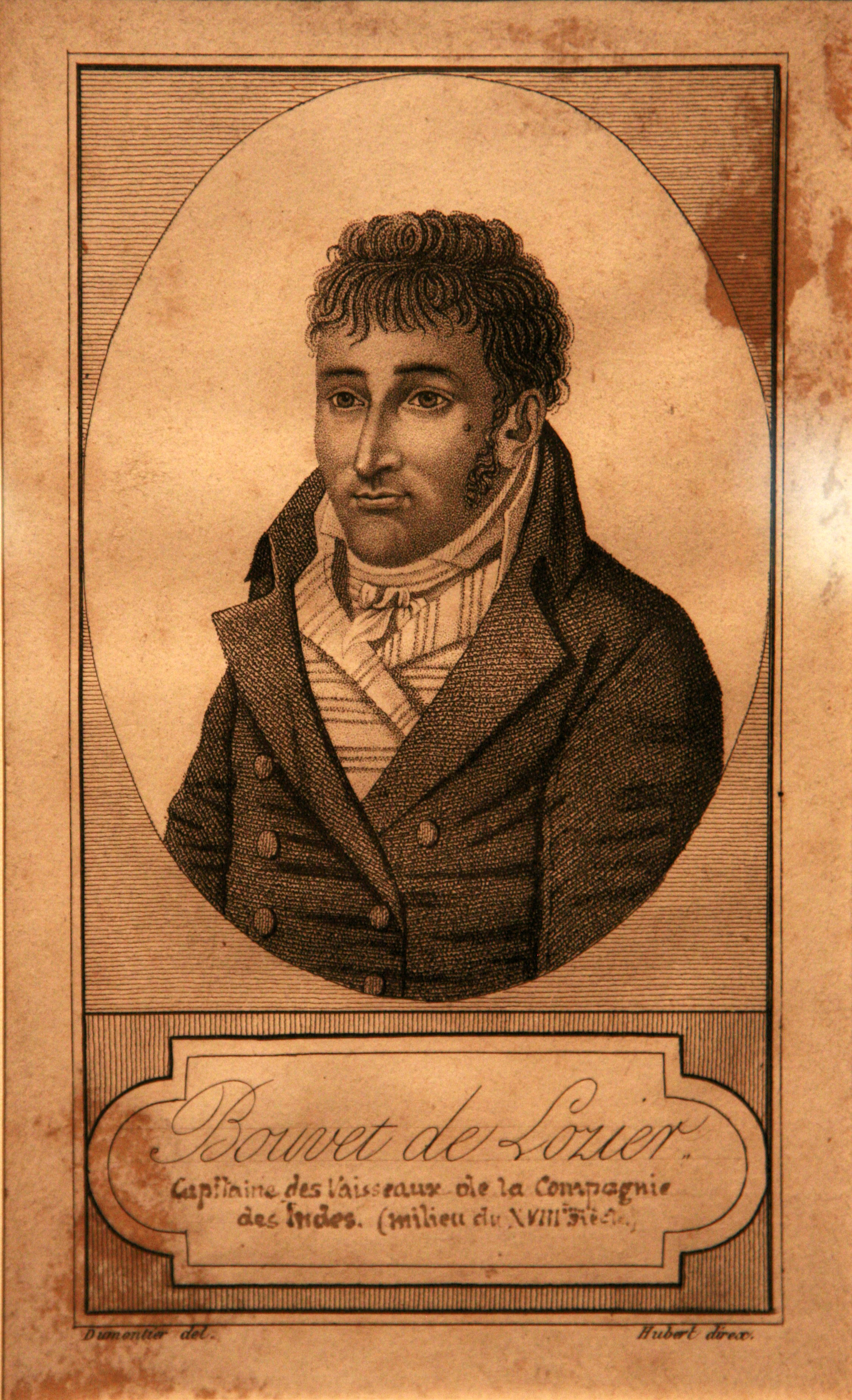 Portrait of Jean-Baptiste Charles Bouvet de Lozier (1705-1786)